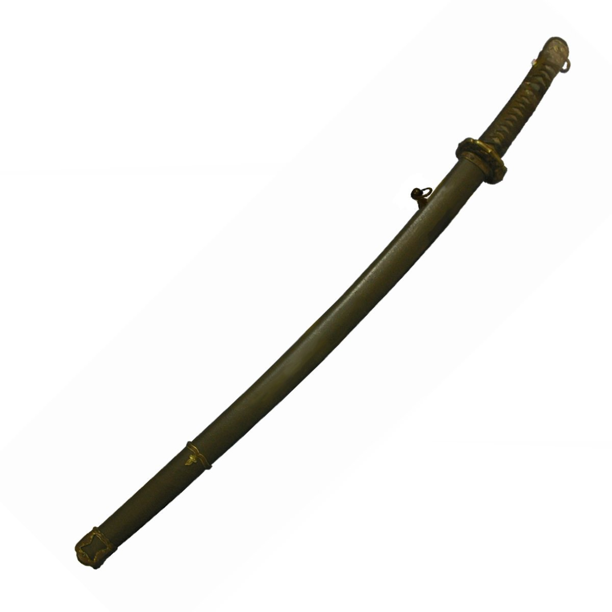 Type 98 Japanese Army saber